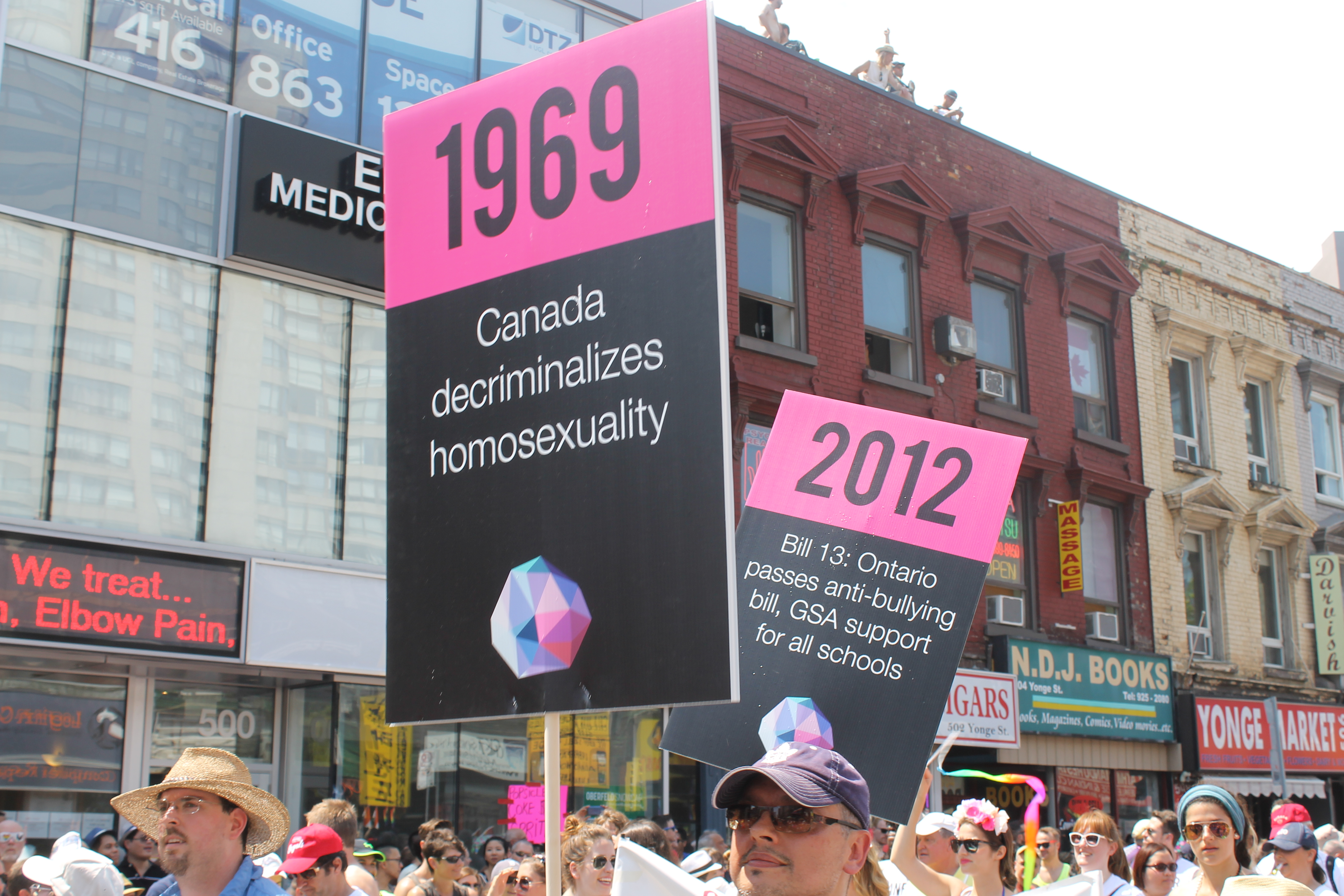 Marchers with signs commemorating significant events in LGBT history in Canada, including the 1969 decriminalization of homosexuality and 2012 anti-bullying legislation. In 2014, Toronto hosted WorldPride.